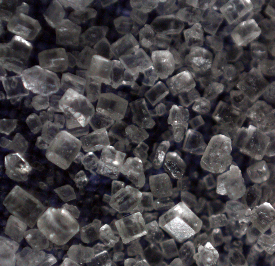 White sugar crystals magnified